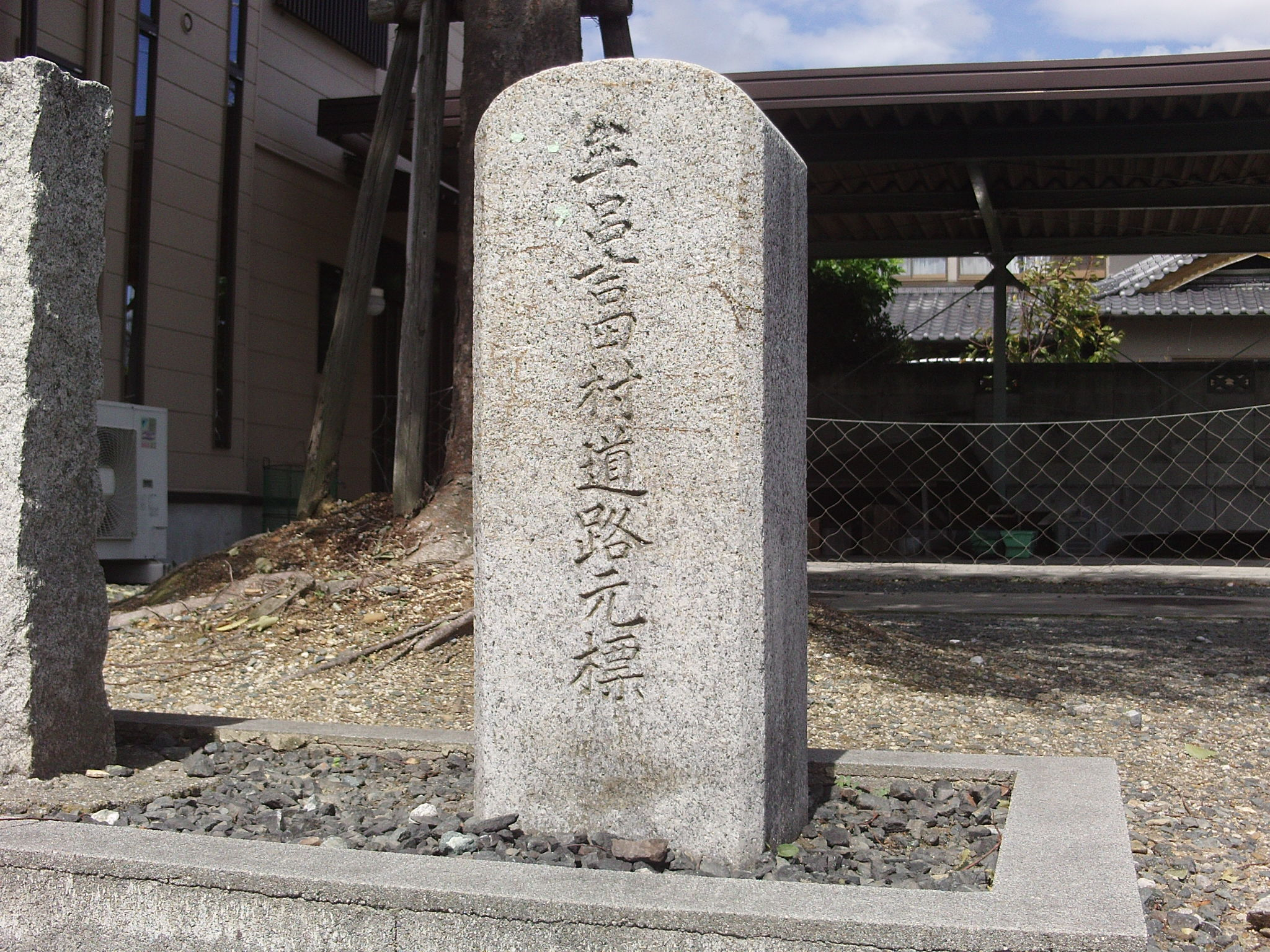 Kilometre zero of Muroyoshida village. (Muroyoshida village, Atsumi-gun, Aichi.)